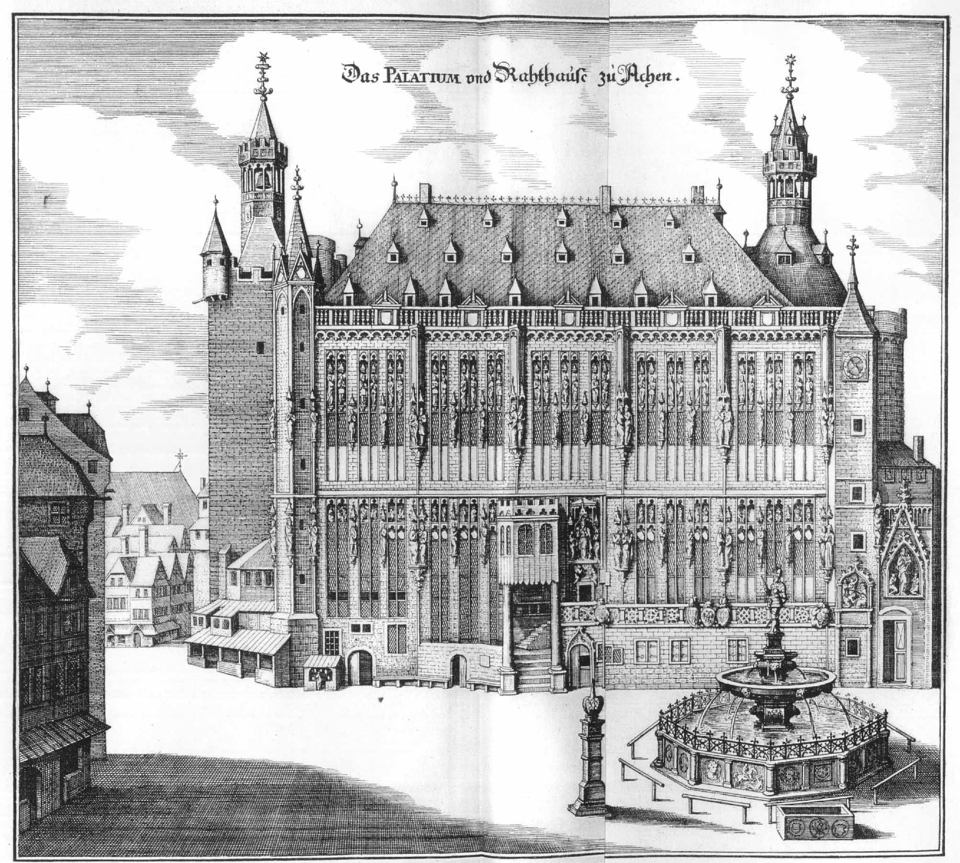 This is a scan of the historical document